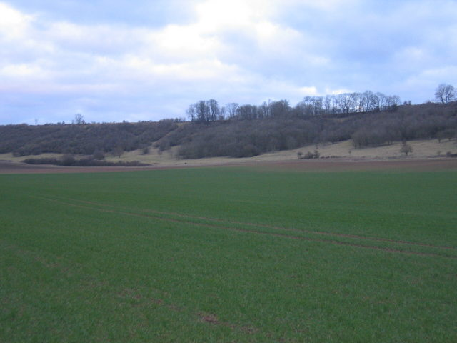 Escarpment near the Graftons. Looking NE from the south of the square from the footpath on Grove Farm drive. On the land above the escarpment are the villages of Temple Grafton and Arden Grafton.